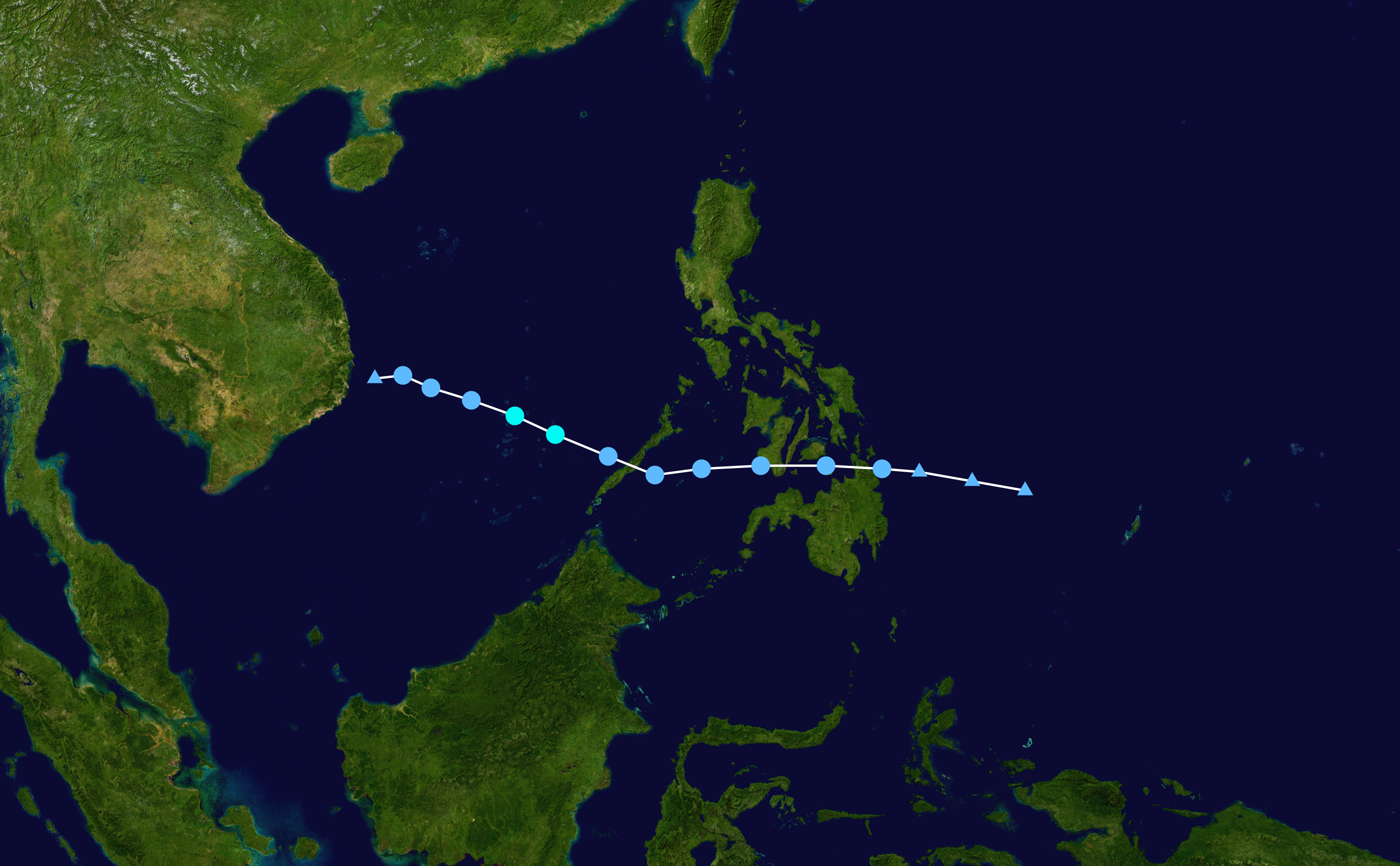 Track map of Tropical Storm Bolaven of the 2018 Pacific typhoon season. The points show the location of the storm at 6-hour intervals. The colour represents the storm's maximum sustained wind speeds as classified in the Saffir–Simpson scale (see below), and the shape of the data points represent the nature of the storm, according to the legend below. Saffir–Simpson scale Tropical depression≤38 mph≤62 km/h Category 3111–129 mph178–208 km/h Tropical storm39–73 mph63–118 km/h Category 4130–156 mph209–251 km/h Category 174–95 mph119–153 km/h Category 5≥157 mph≥252 km/h Category 296–110 mph154–177 km/h Unknown Storm type Tropical cyclone Subtropical cyclone Extratropical cyclone / Remnant low / Tropical disturbance / Monsoon depression